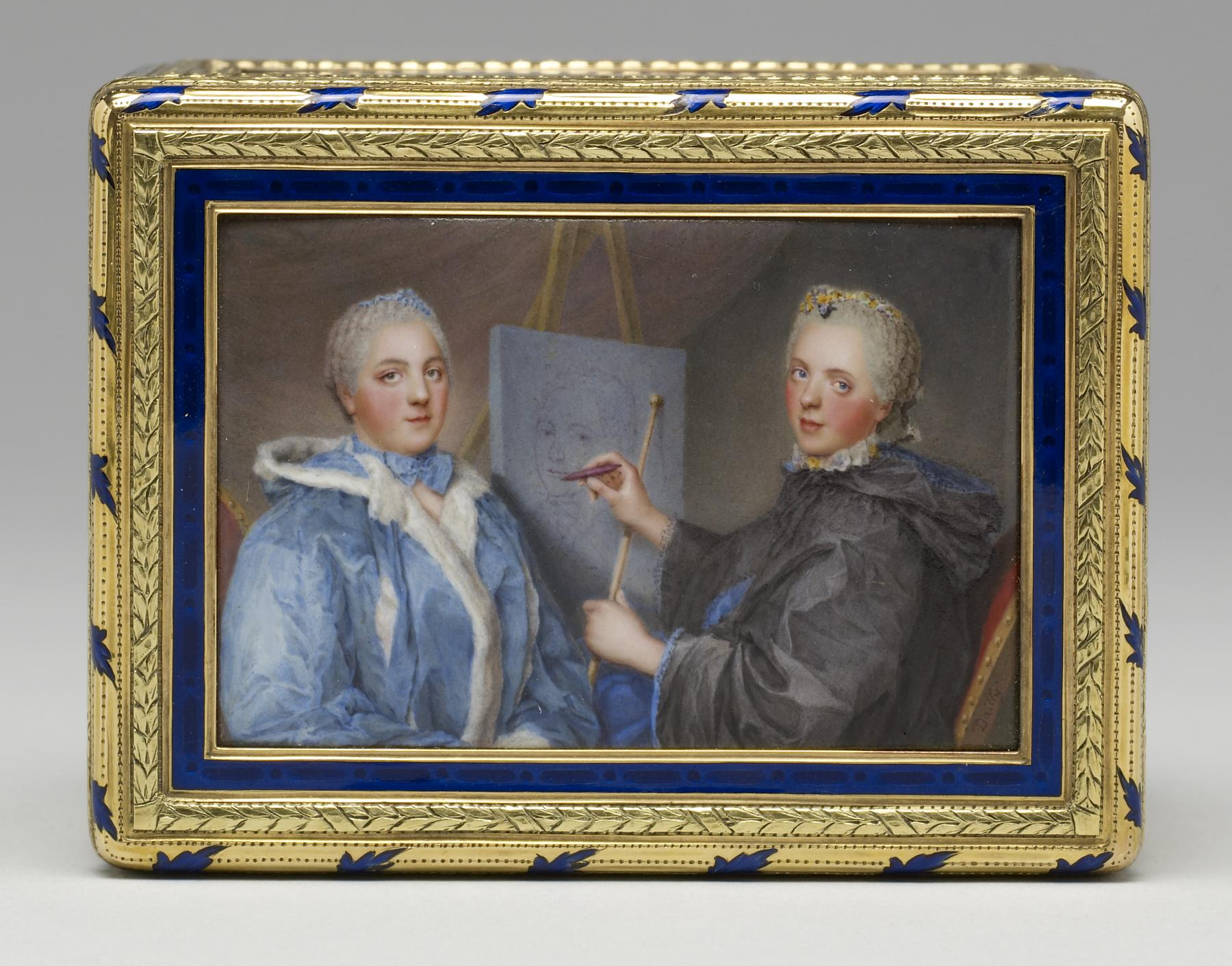 The box is decorated with images of the children of Louis XV and Queen Marie Leszczynska: Louise-Elizabeth and Marie-Adelaide (on the cover); Victoire-Louise and Sophie-Philippine (on the base); Louis the dauphin with a kite (on the front); Louise-Marie holding a battledore and shuttlecock for a racquet game (on the left end); and Philippe, duke of Anjou blowing bubbles (on the right end). As Philippe died in 1733, the images must be based on earlier portraits.